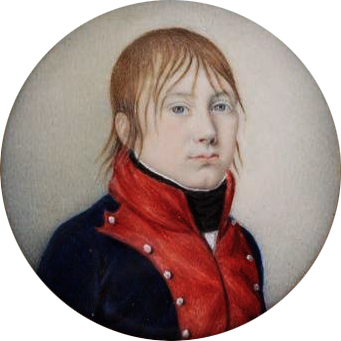 Carel Sirardus Willem van Hogendorp